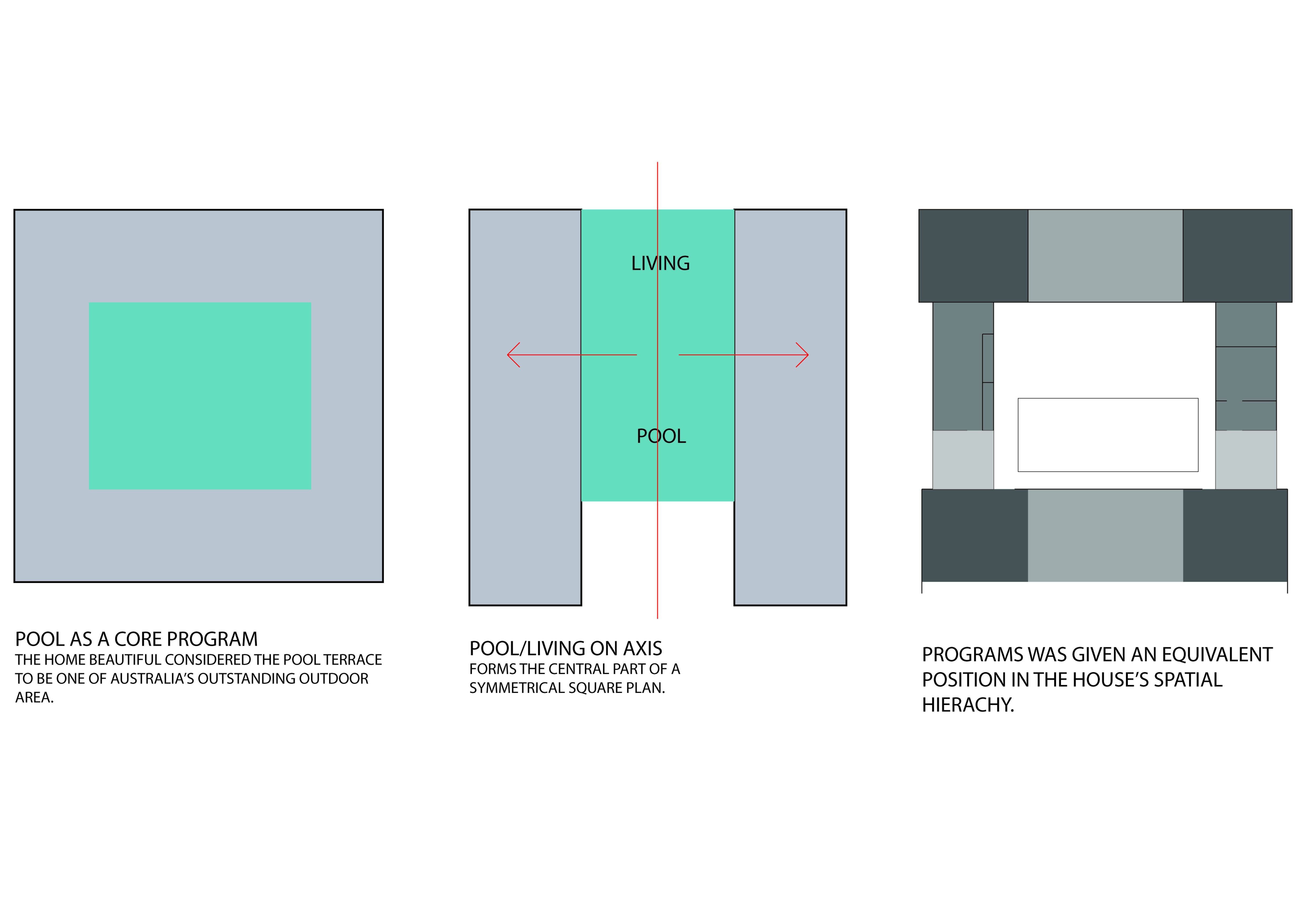 diagrams explaining the simon house plan